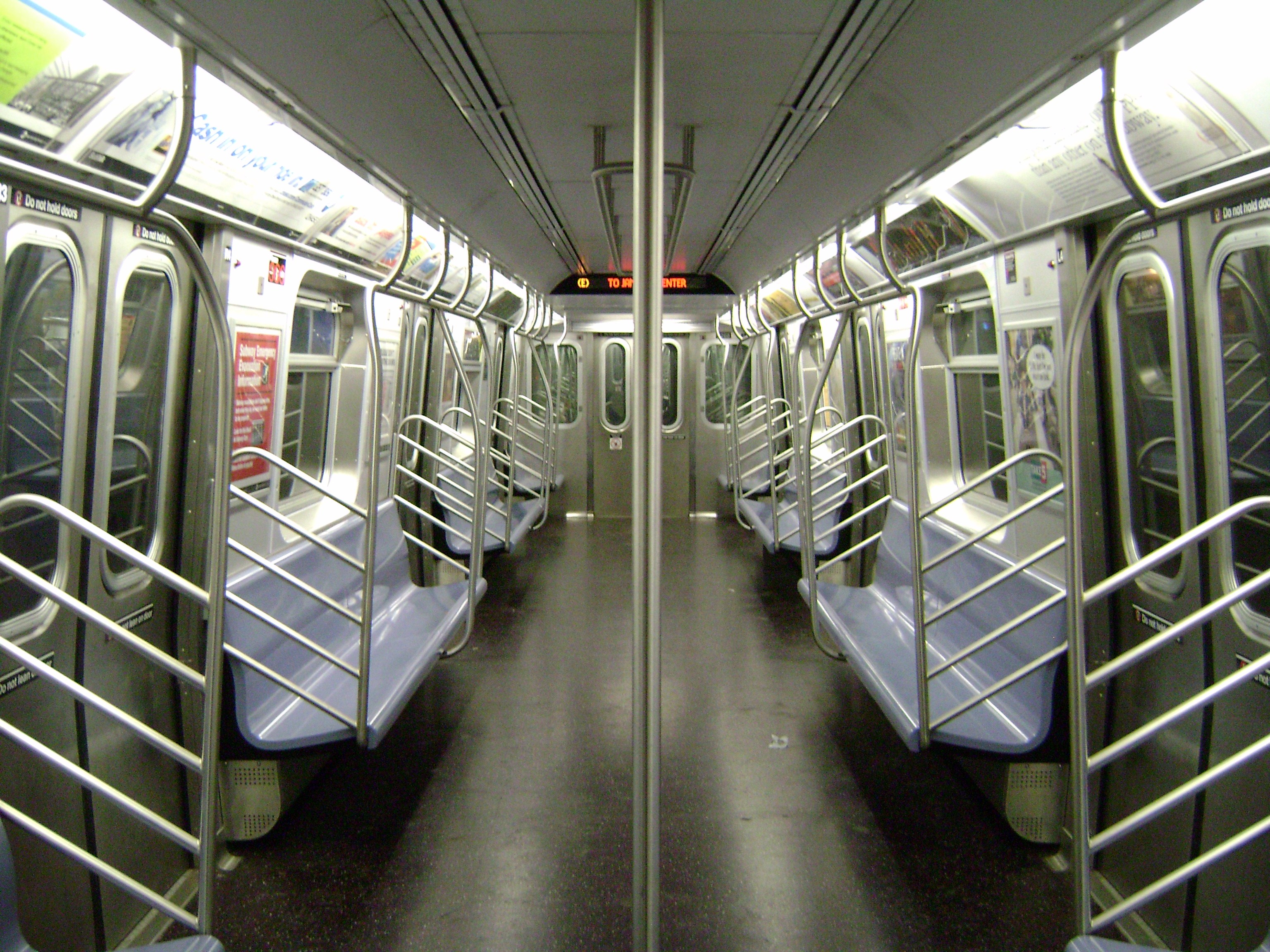 An unusually empty R160.